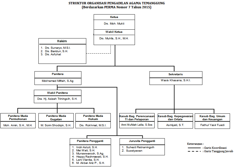 Diagram of organzation of Pengadilan Agama Temanggung